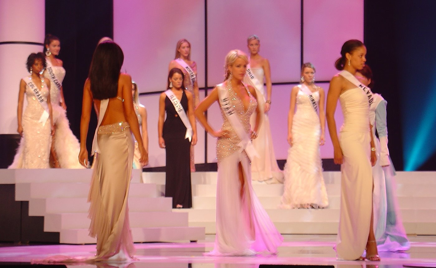 Contestants rehearsing for the Miss USA 2004 pageant